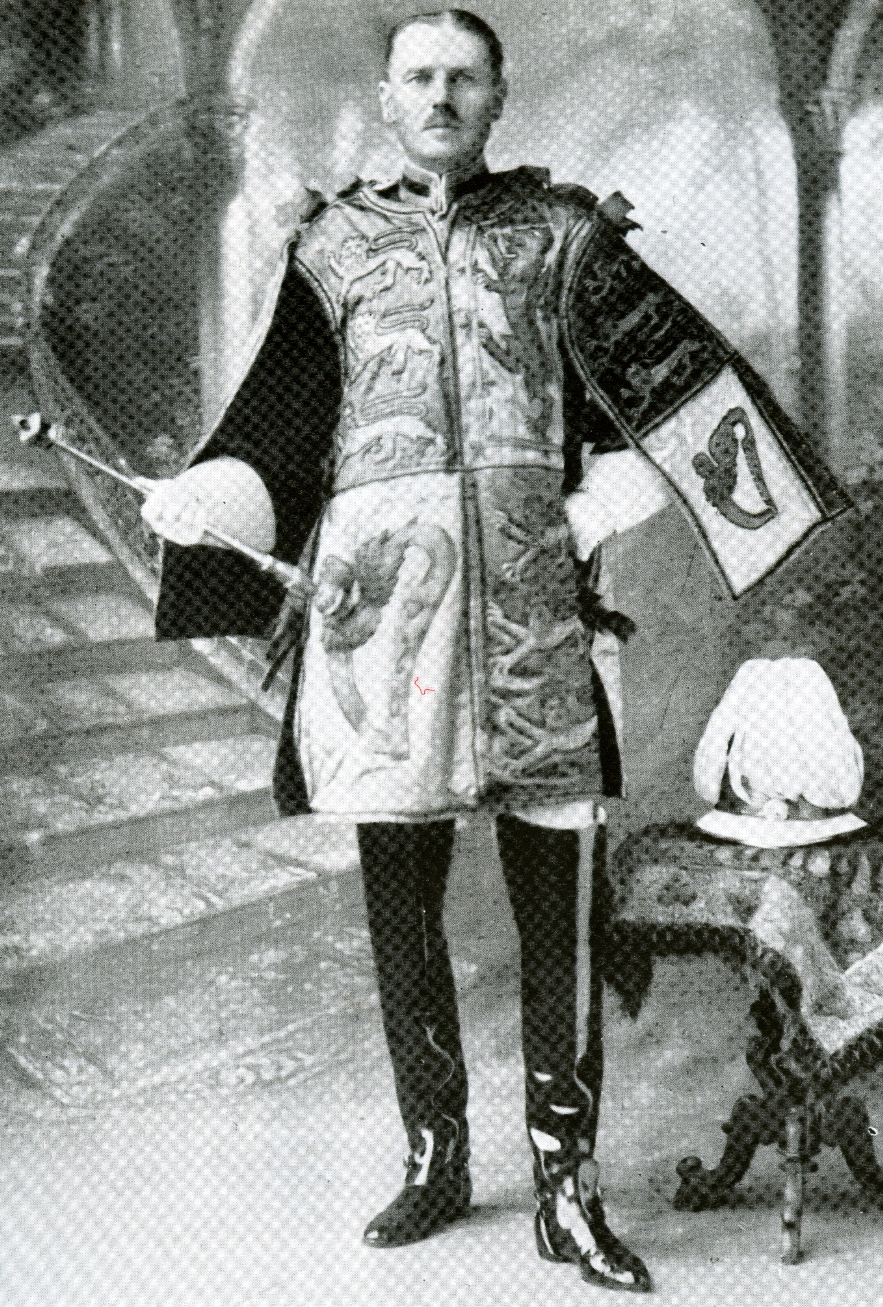 A photograph of William Peyton serving as Delhi Herald of Arms Extraordinary at the Delhi Durbar in 1911.